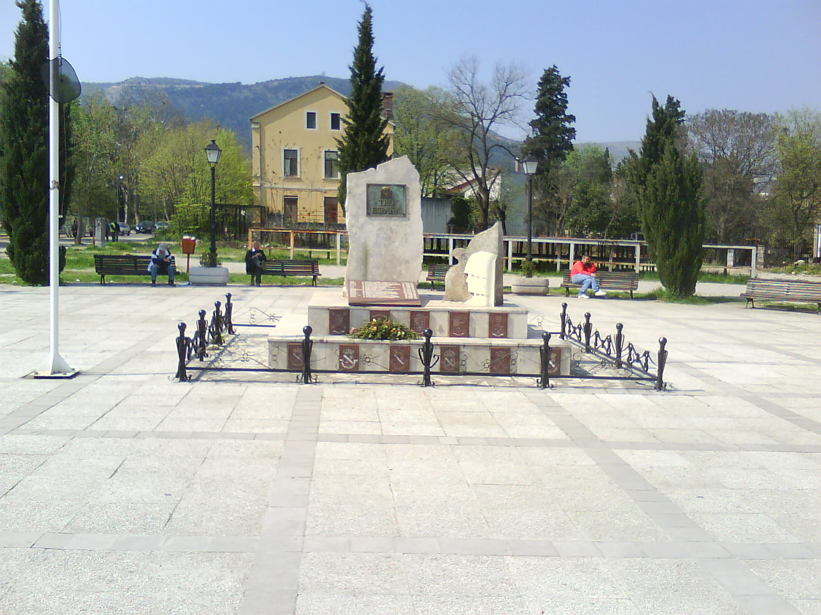 Spanish square in Mostar